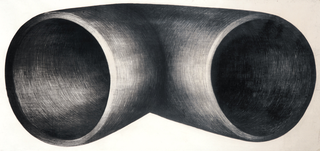 Jiří Kornatovský: From nowhere to nowhere (Silence), 1989, charcoal on cardboard, 220 x 480 cm